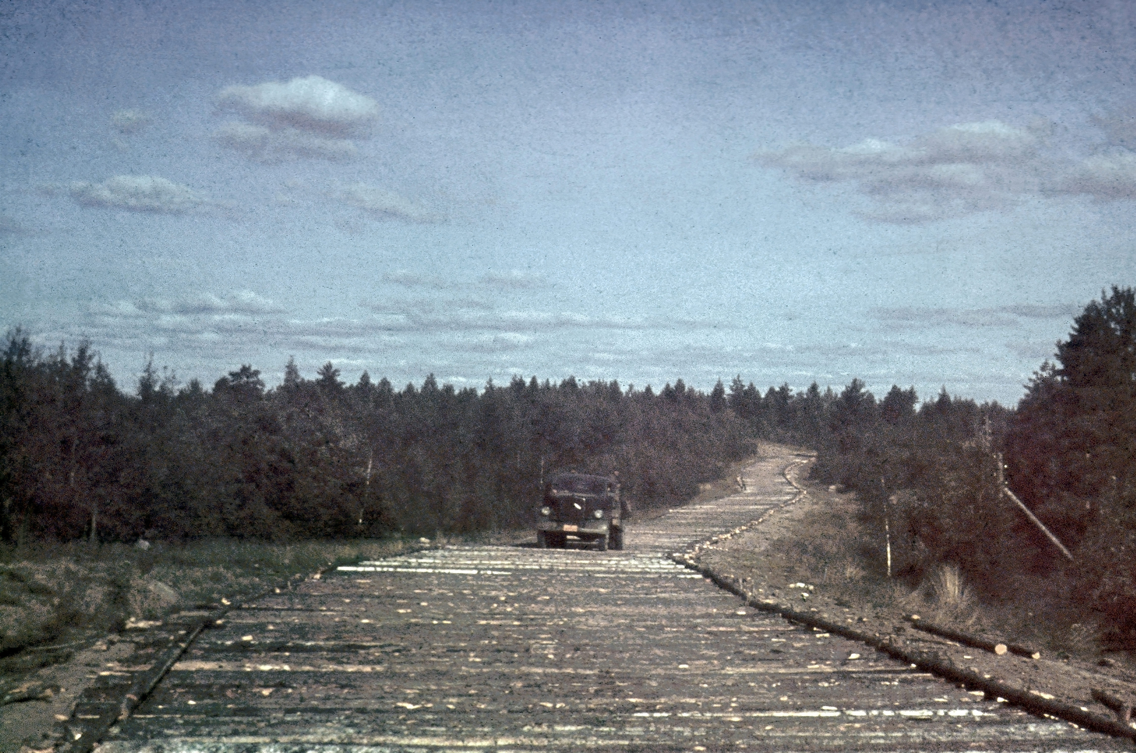 Truck on Corduroy road. Date: 1944.04.25